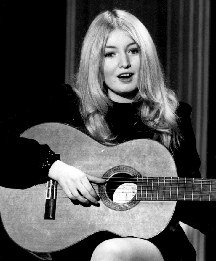 Photo of Mary Hopkin performin on The Liberace Show.